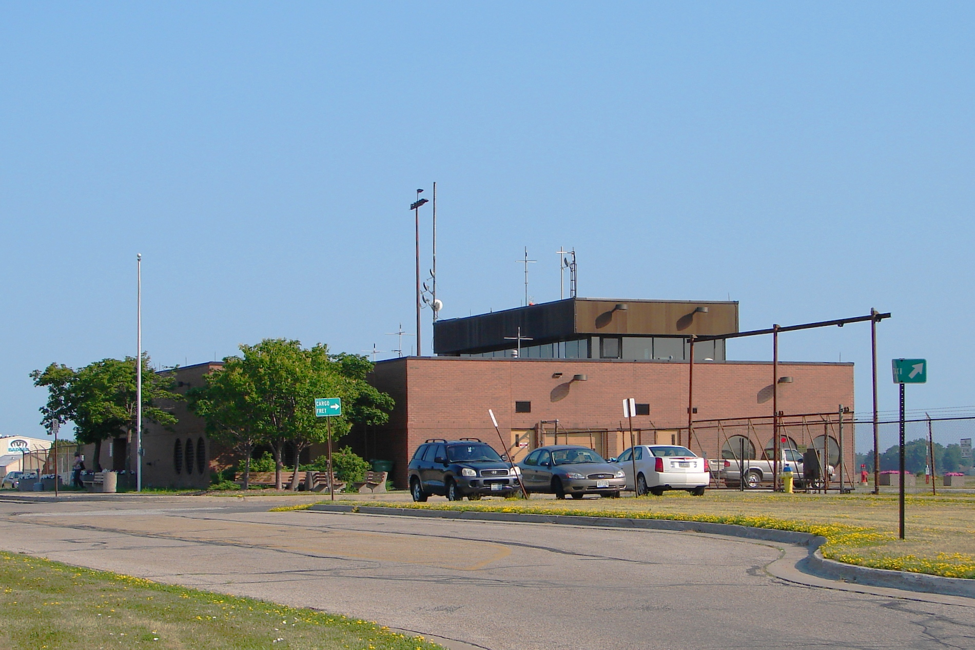 Sarnia Airport, Ontario, Canada